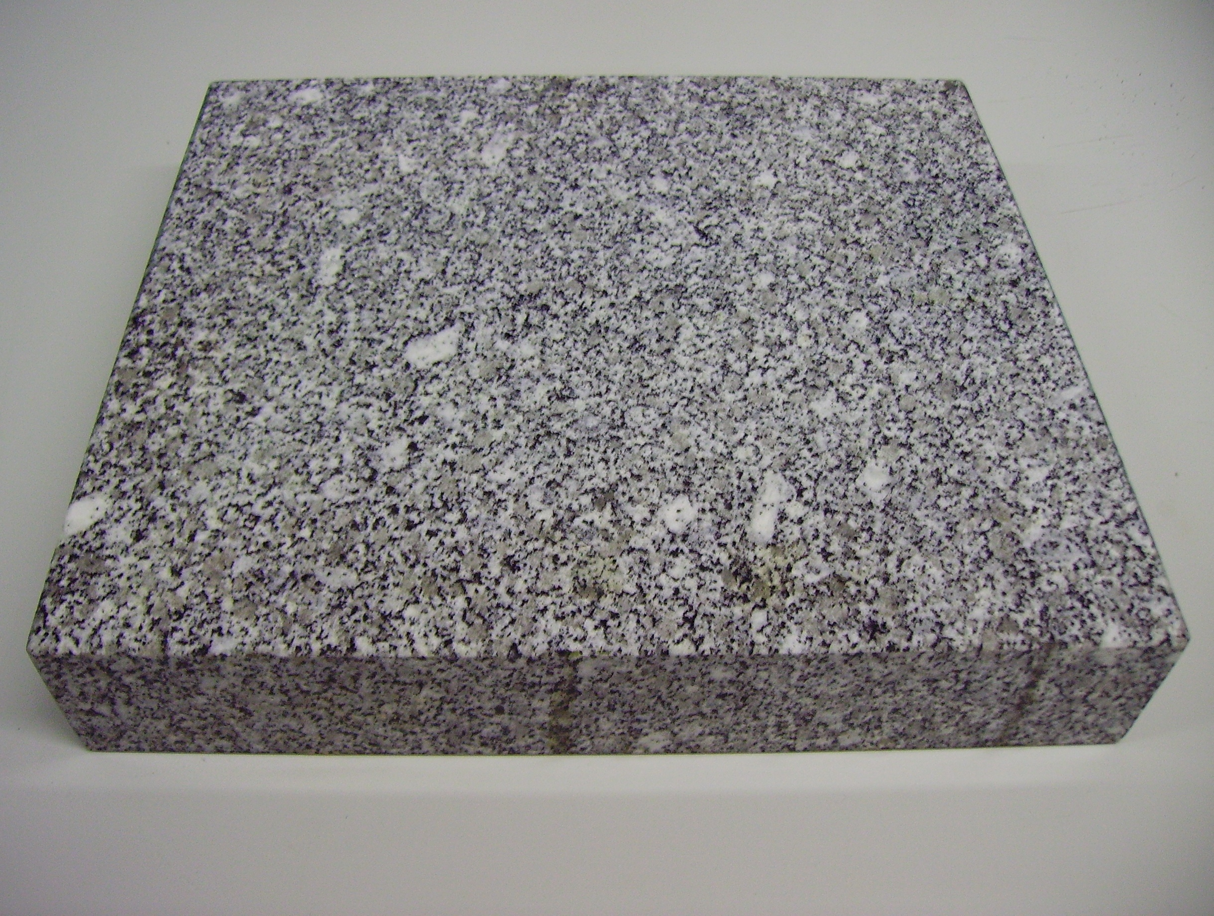 Laboratory plate, mostly used to support analytical balance.